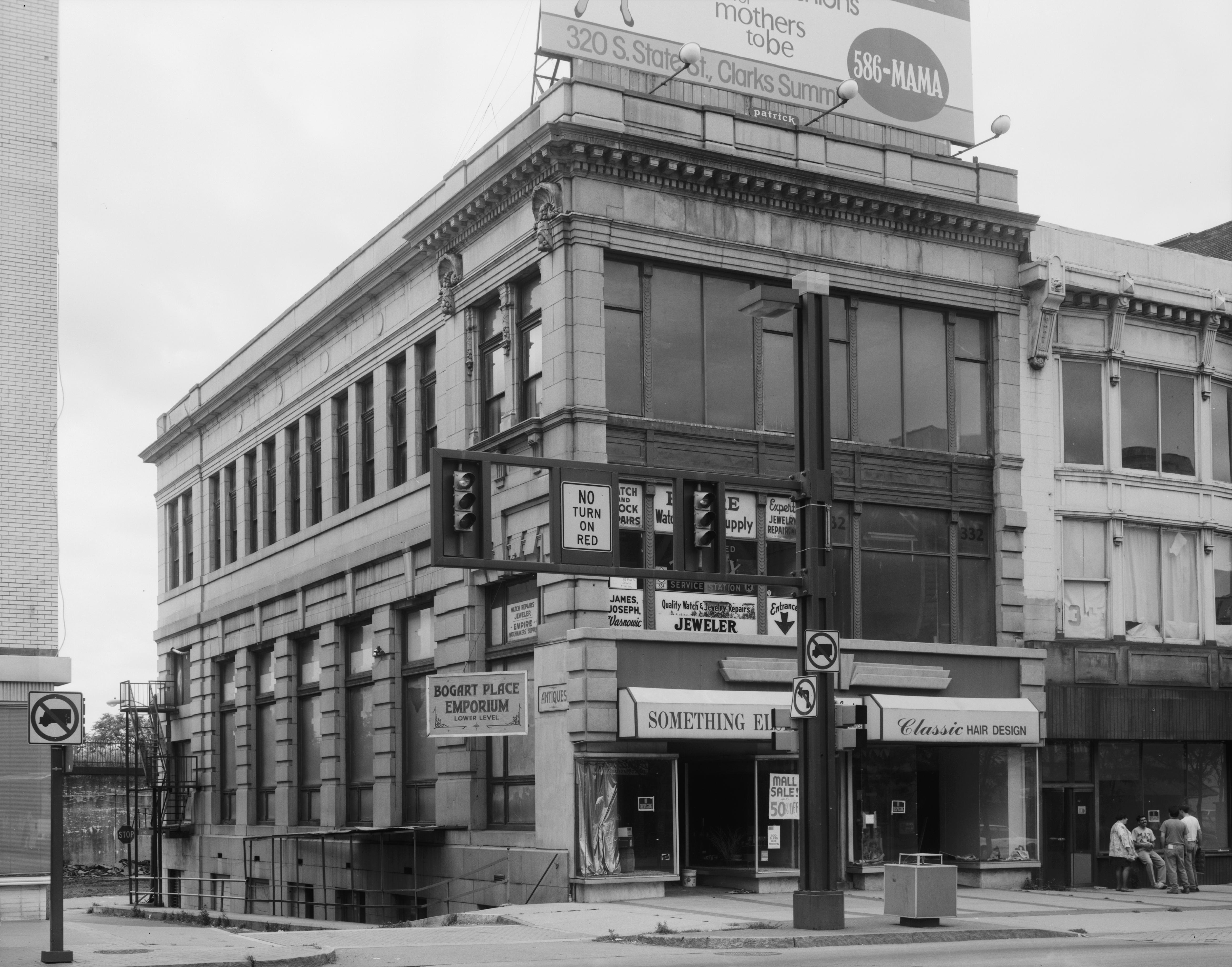 Building at 332-334 Lackawanna Avenue (a former bank) in Scranton, Pennsylvania, United States. Built in 1902, it is part of a historic district, the Lackawanna Avenue Commercial Historic District, that is listed on the National Register of Historic Places.